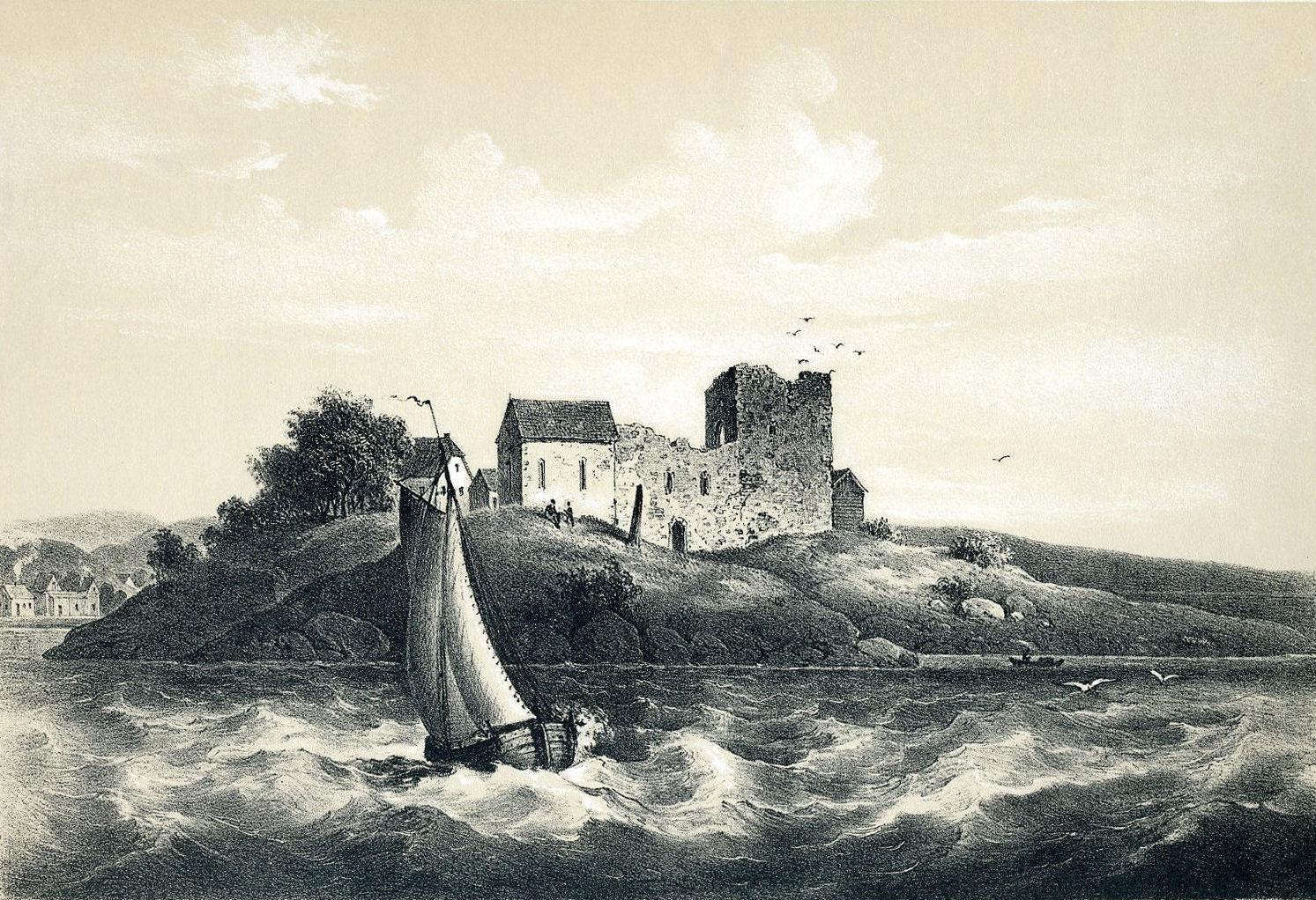 Picture from the Work "Norge fremstillet i Tegninger" 1848 by Chr. Tønsberg. This picture depicts Avaldsnes Church, Avaldsnes municipality, Karmøy (Island), Rogaland county, Norway.